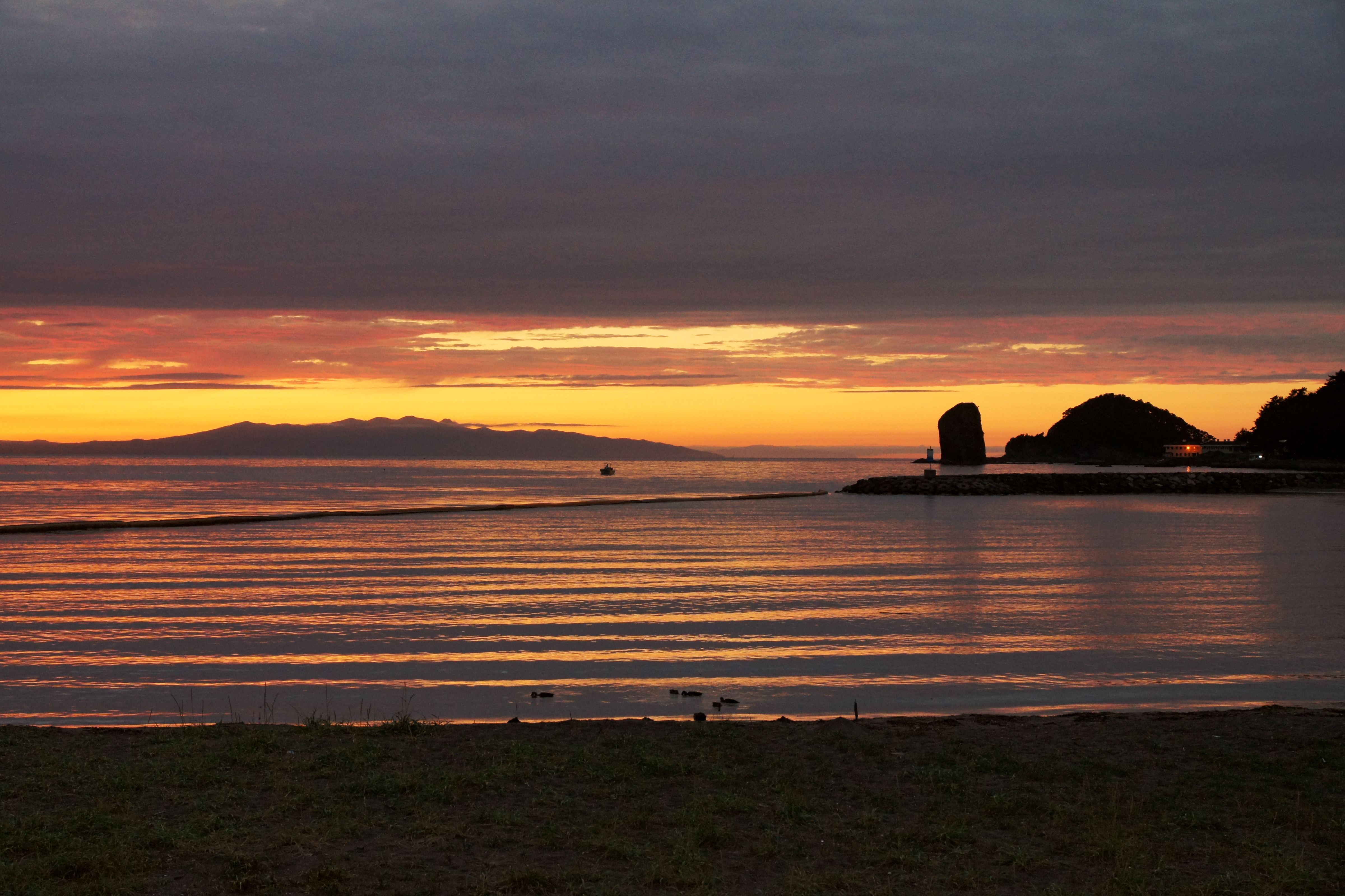 Twilight in Aomori Bay seen from Asamushi Onsen in Aomori, Aomori prefecture, Japan